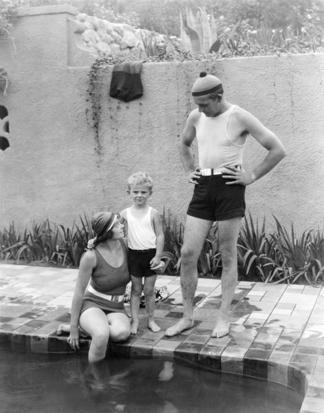 Dorothy Davenport Reid, Wallace Reid, Jr., and the silent film star Wallace Reid in bathing suits at the edge of a swimming pool in a publicity still, c. 1920.